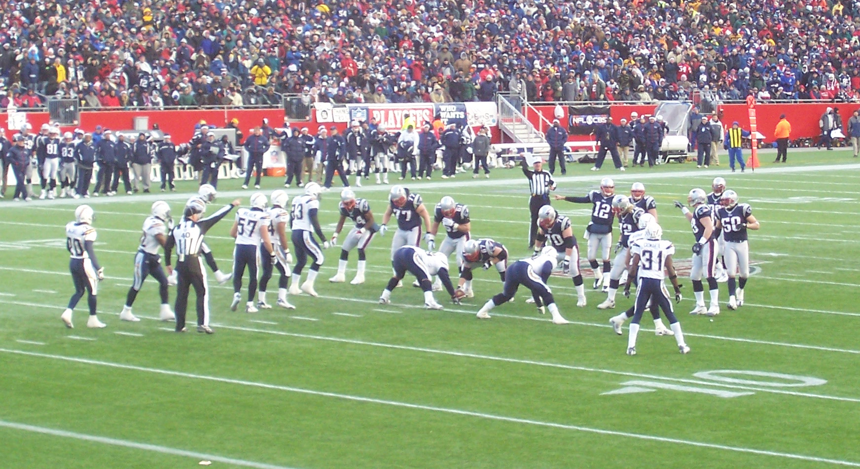 The New England Patriots' offense on the field versus the San Diego Chargers in the 2007-08 AFC Championship.